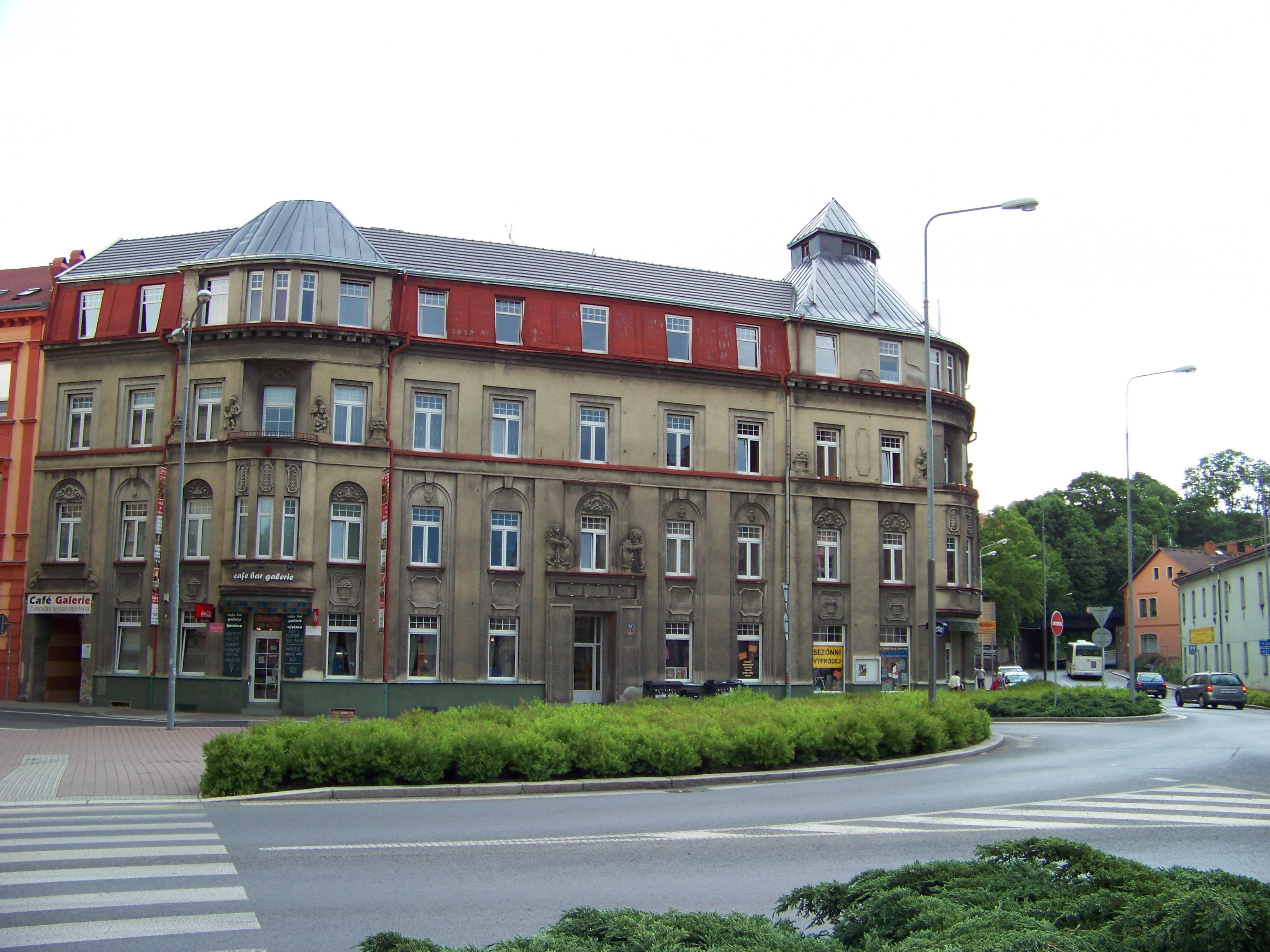 Děčín I-Děčín, Děčín District, Ústí nad Labem Region, the Czech Republic. Náměstí Svobody 461/1. - OpenStreetMap(Info)